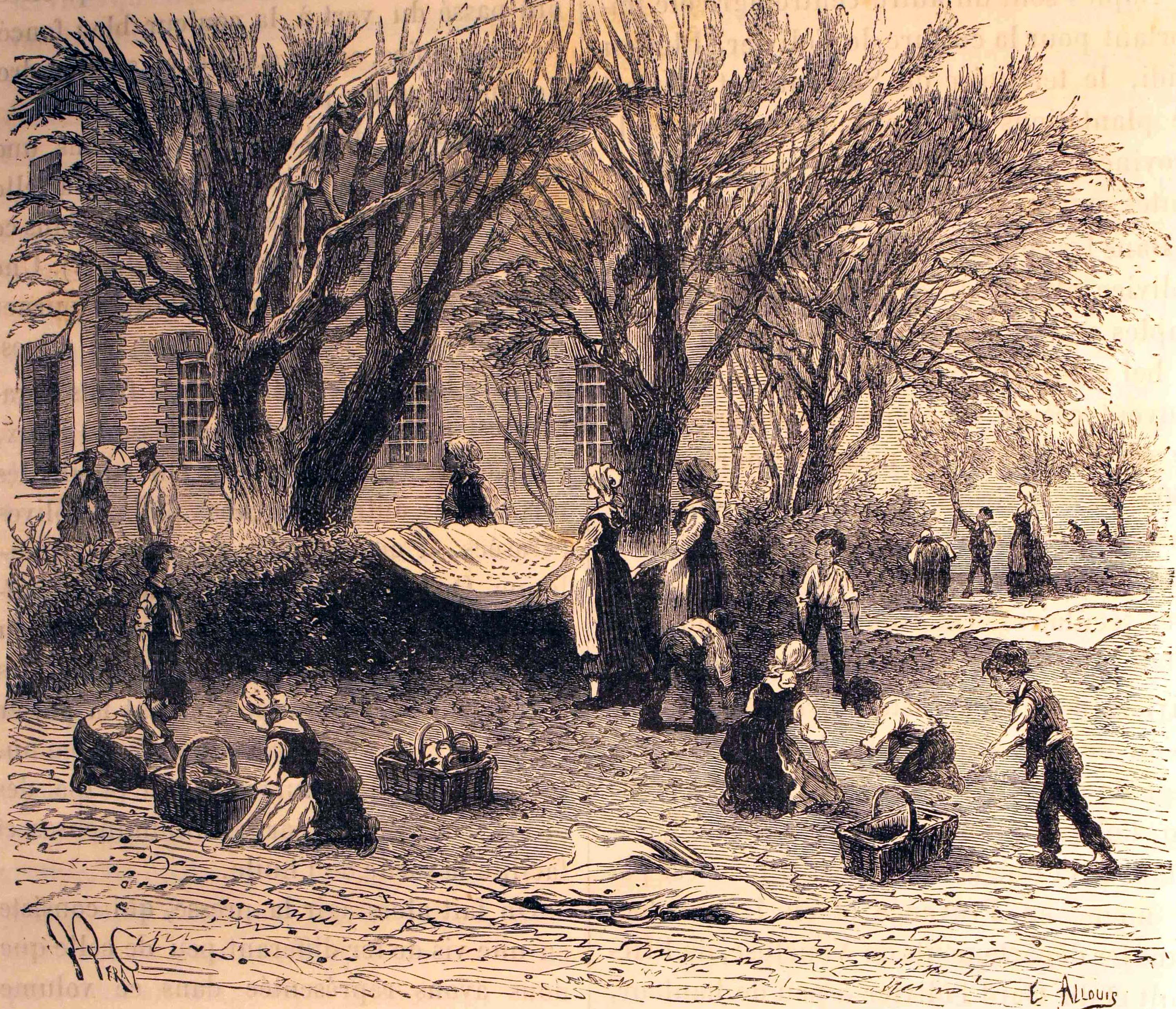 Olive pickers in Provence